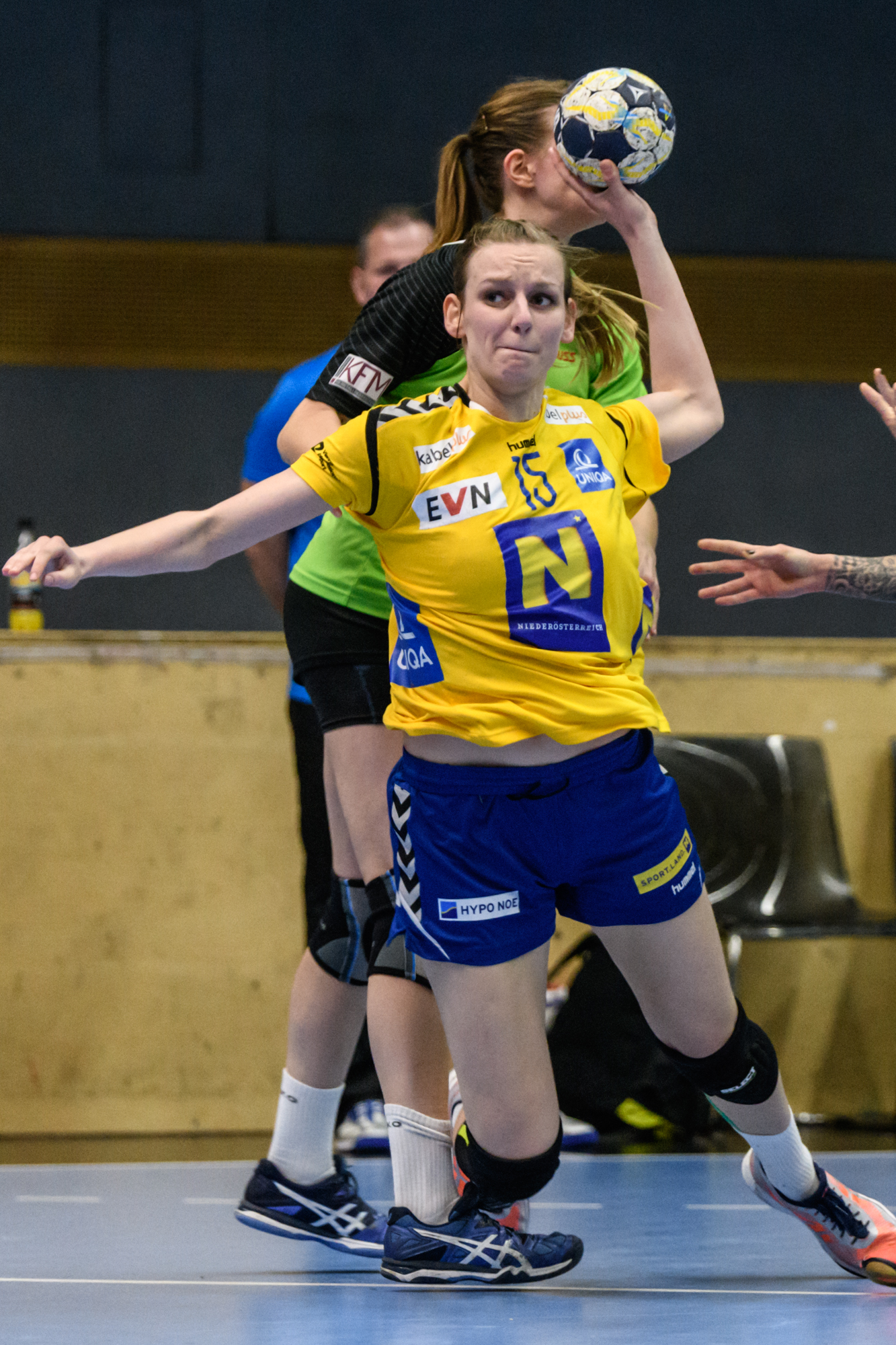 Women Handball Austria, Hypo NÖ vs. UHC Müllner Bau Stockerau 2018/04/07. Picture shows Claudia Wess (Hypo NÖ.